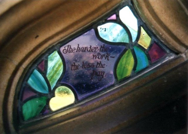 Stained glass window at Dinmore Manor Now no longer open to the public, Dinmore Manor has some beautiful stained glass windows round its "cloisters" of which this is only a tiny part, but I concur with the sentiment. This was taken several years ago when the public could visit.